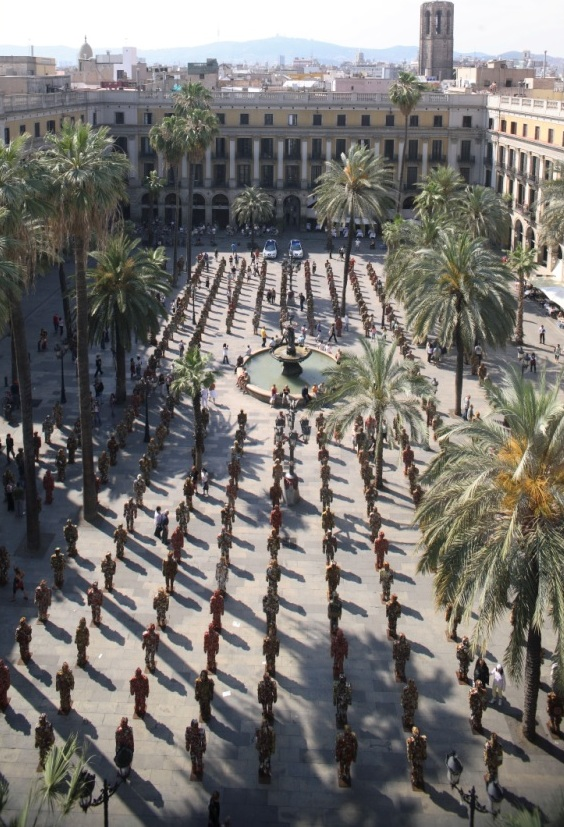 HA Schult Barcelona Trash People